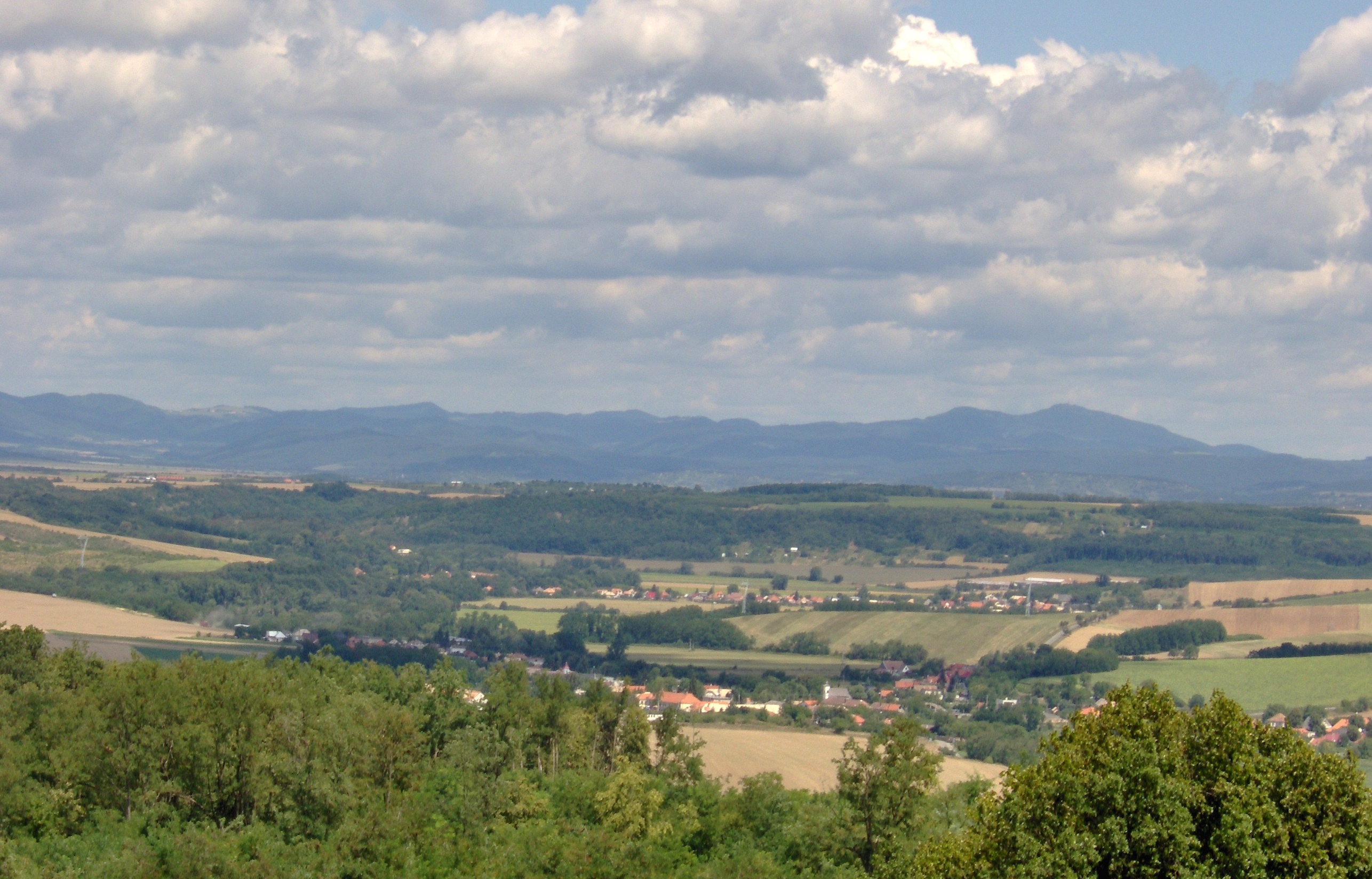 Levice-Kalinčiakovo, Štiavnica Mountains